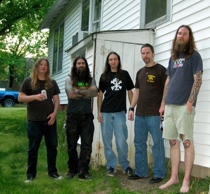 Source: [1] Uploader: User:Hulkwarrior